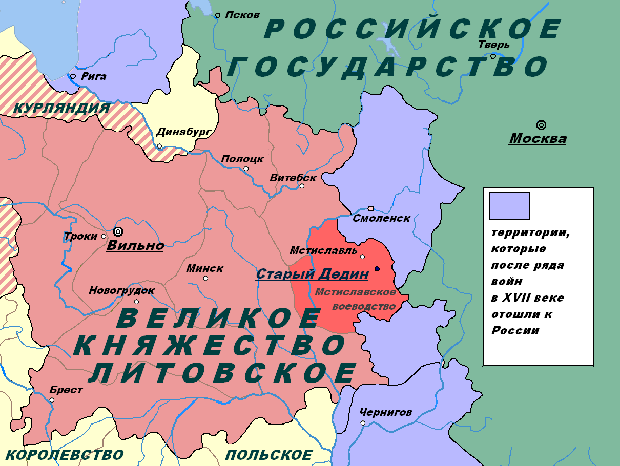 This image shows the location of the village Stary Dzedzin on the political map of the 17th century.